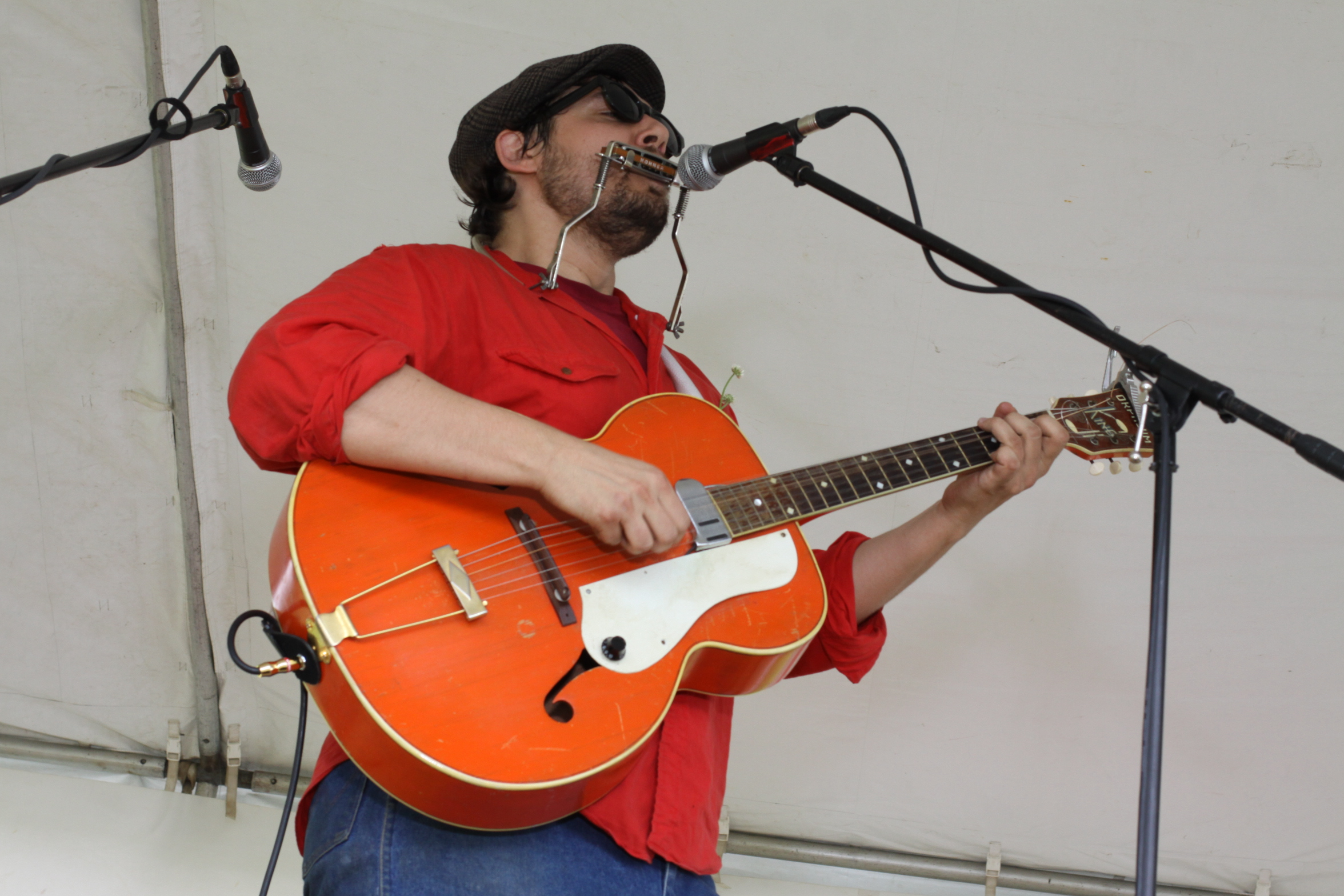 TJ Kong and the Atomic Bomb Dan Bruskewicz - Vox, Rhythm Guitar, Harmonica Kevin Conner - Lead Guitar Joshua "J.A.M" Machiz - Upright Dan Cask - Drums, yelling References TJ Kong + the Atomic Bomb. . TJ Kong + the Atomic Bomb. . 1956 KAY Orpheum KING. Gbase. Kay History. King of Kays. "Orpheum – distributed by Wards Catalogue"